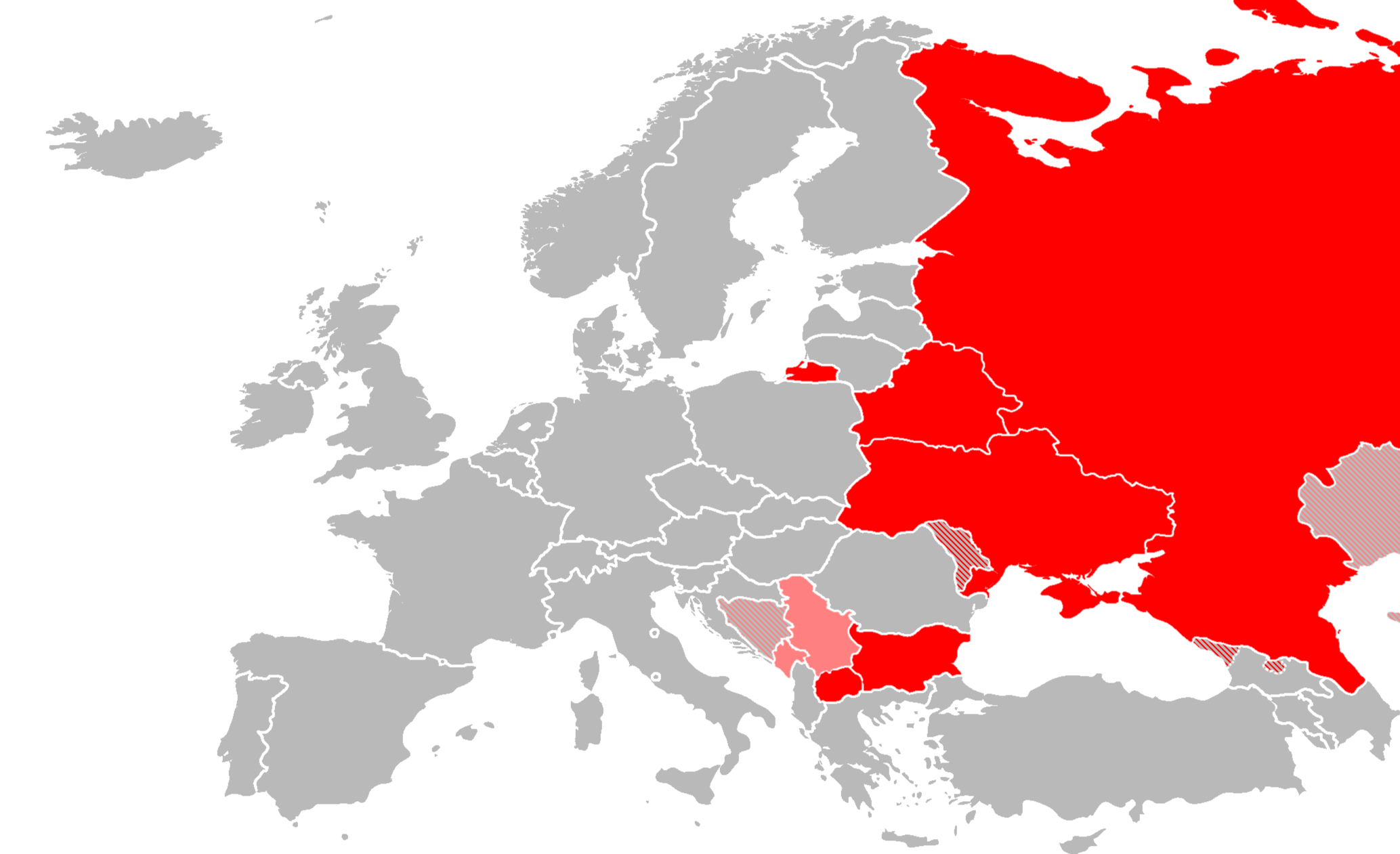 The European states where the Cyrillic script is in use: as the only alphabet of the official language(s) as an alphabet of the official language(s) alongside the Latin alphabet In diagonally-striped areas, several languages are official, some of which do not use the Cyrillic alphabet.